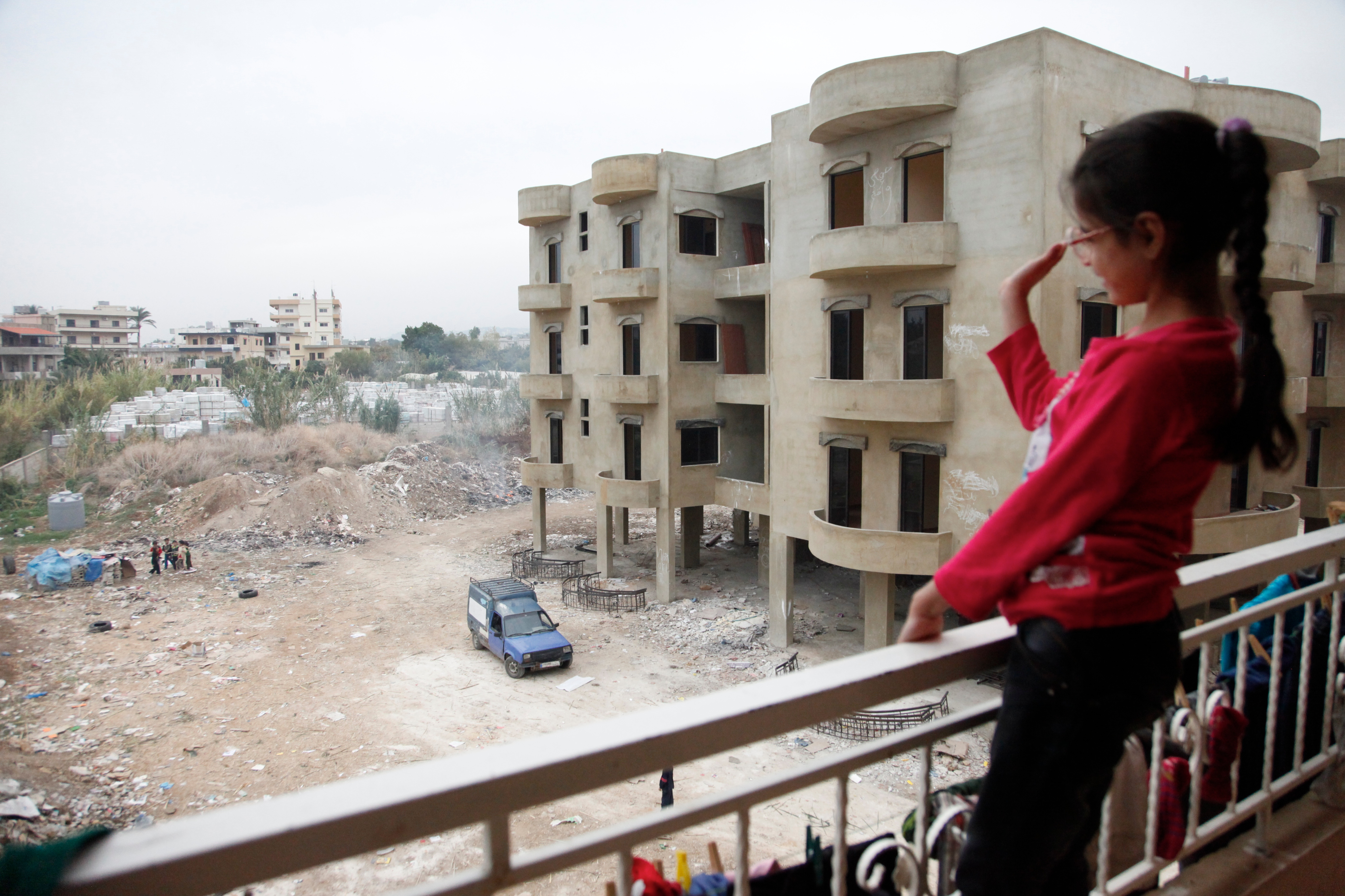 A Syrian girl waves from the balcony of an unfinished apartment block in northern Lebanon. There are over 800,000 Syrian refugees in Lebanon now; around 400,000 of them are children. Most of them are living in makeshift shelters and tents, but some families are renting apartments like this if they can afford to. Conditions are still basic though, as the buildings are unfinished and unfurnished. Many apartments are shared by 2 or 3 families. The UK is provideing winter tents, warm clothing and heaters as part of an allocation of nearly £90 million to help hundreds of thousands of Syrians, especially children, cope with the onset of winter. For full details on how the UK is helping people affected by the conflict in Syria, please